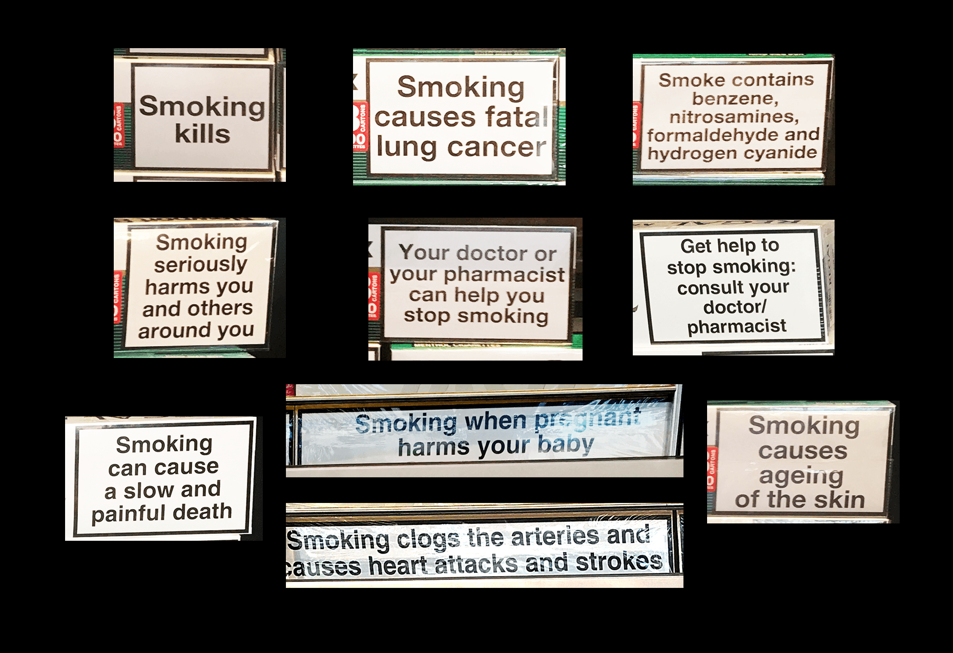 Composite image of photographs of warning labels on cigarette cartons in St. Maarten, Dutch West Indies taken on February 10, 2019.